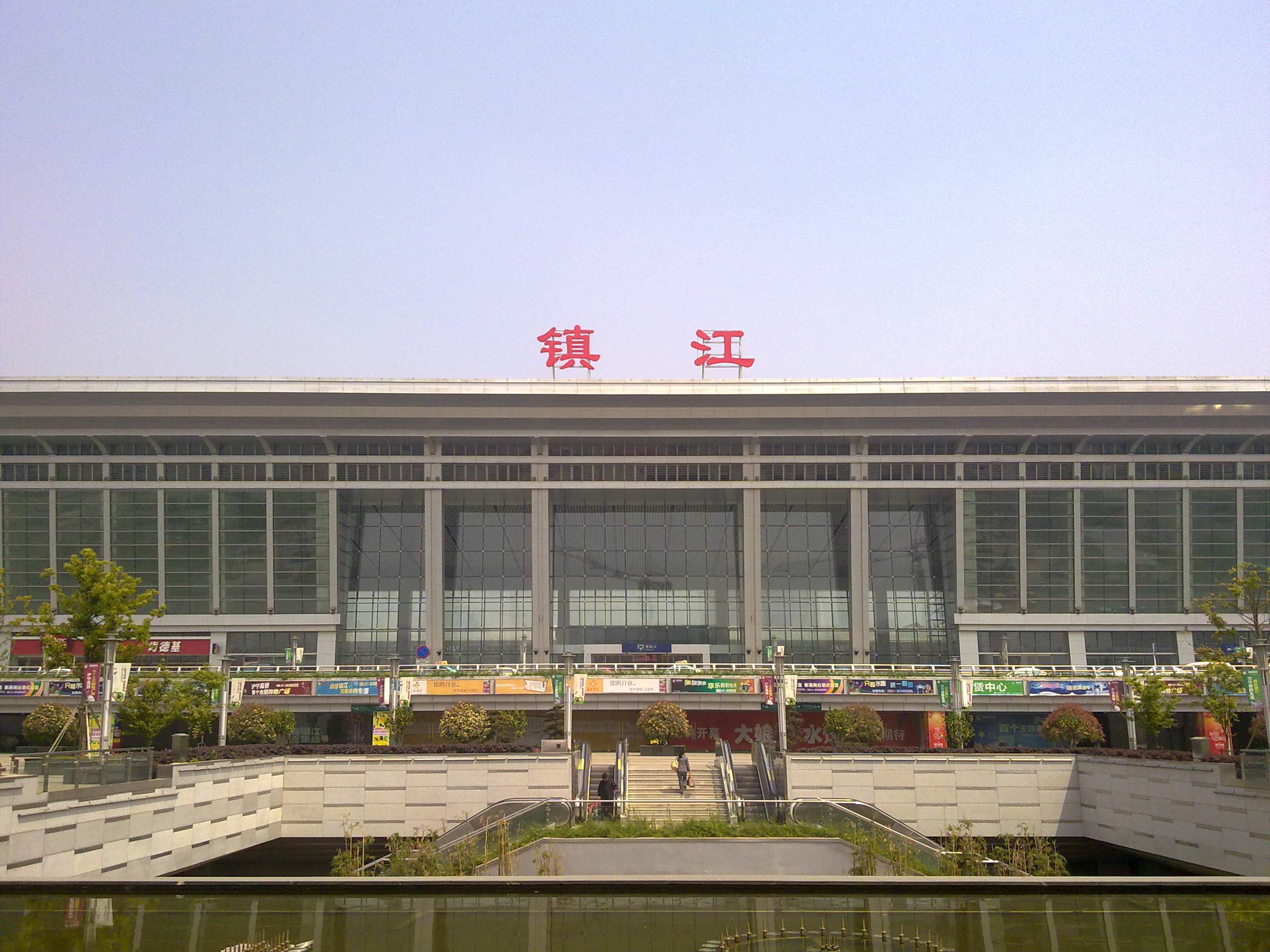 Zhenjiang South Railway Station （Zhenjiang_CRH_Railway_station）